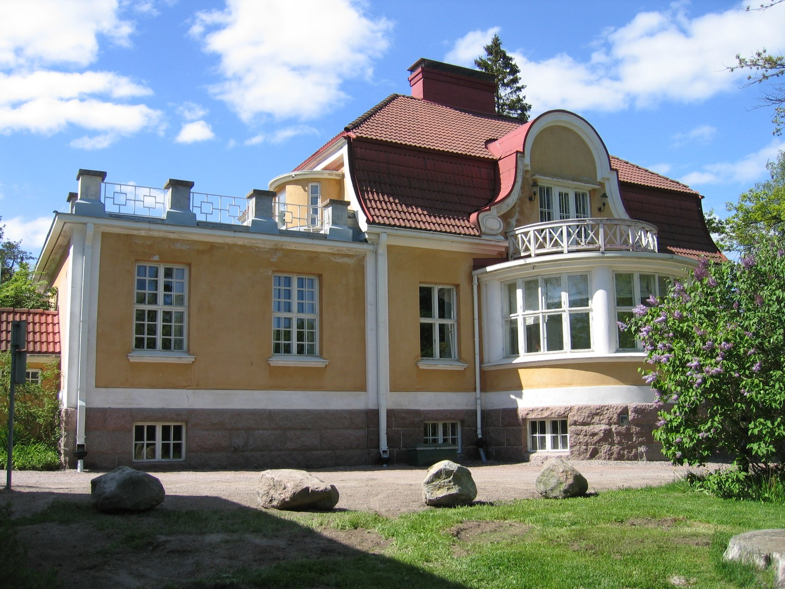 Villa Junghans in Kauniainen, Finland. The building is owned by the town.